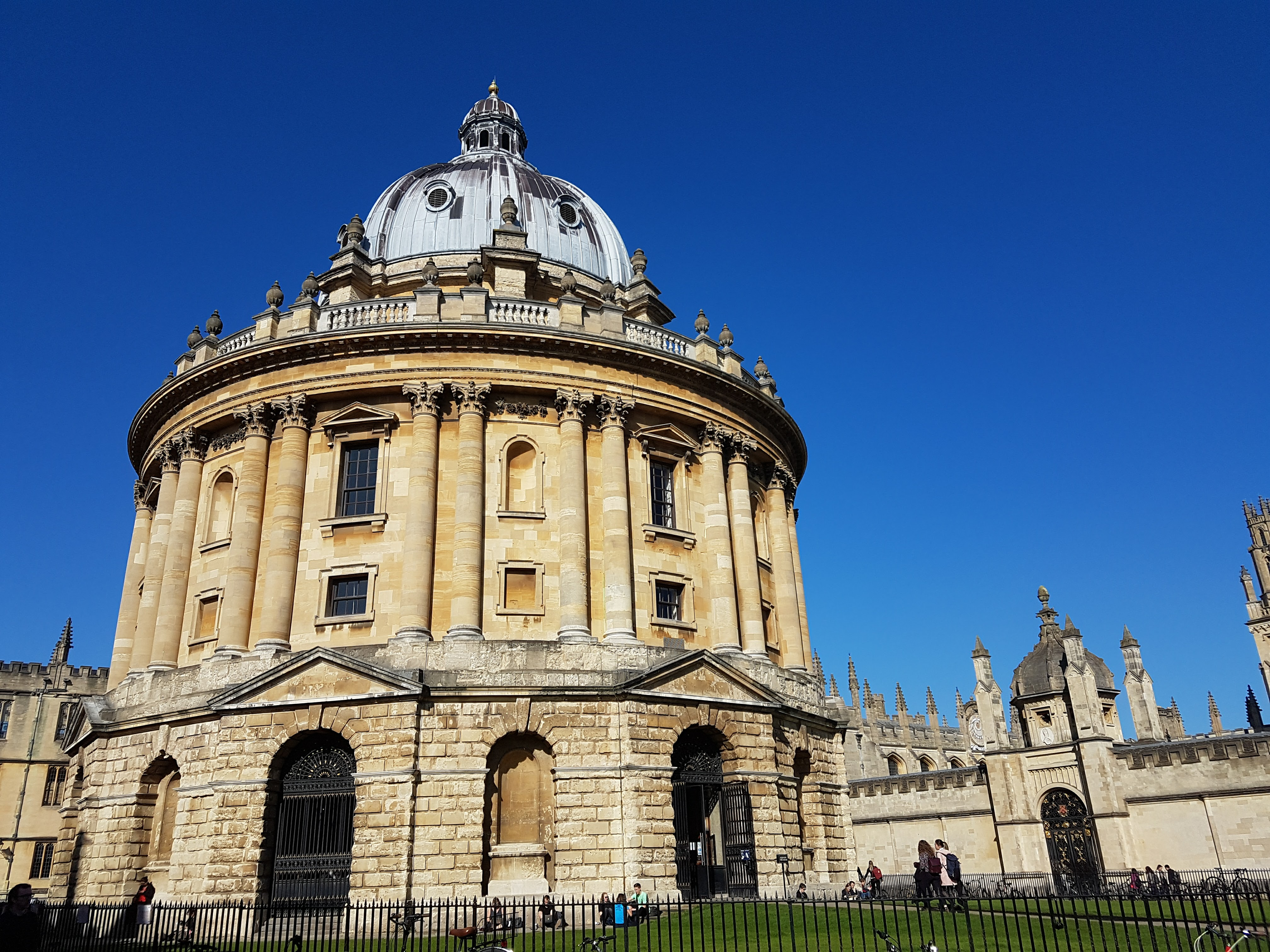 Radcliffe Camera, Bodleian library